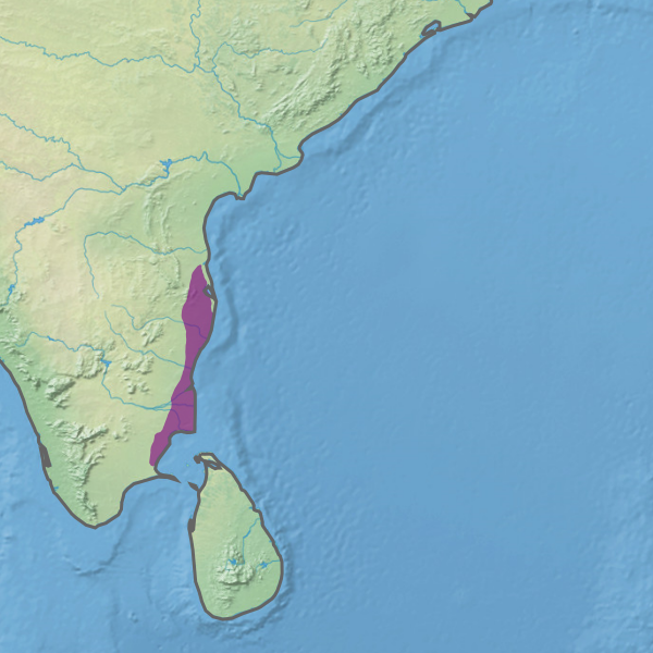 Ecoregion IM0204 - East Deccan dry evergreen forests (in purple)